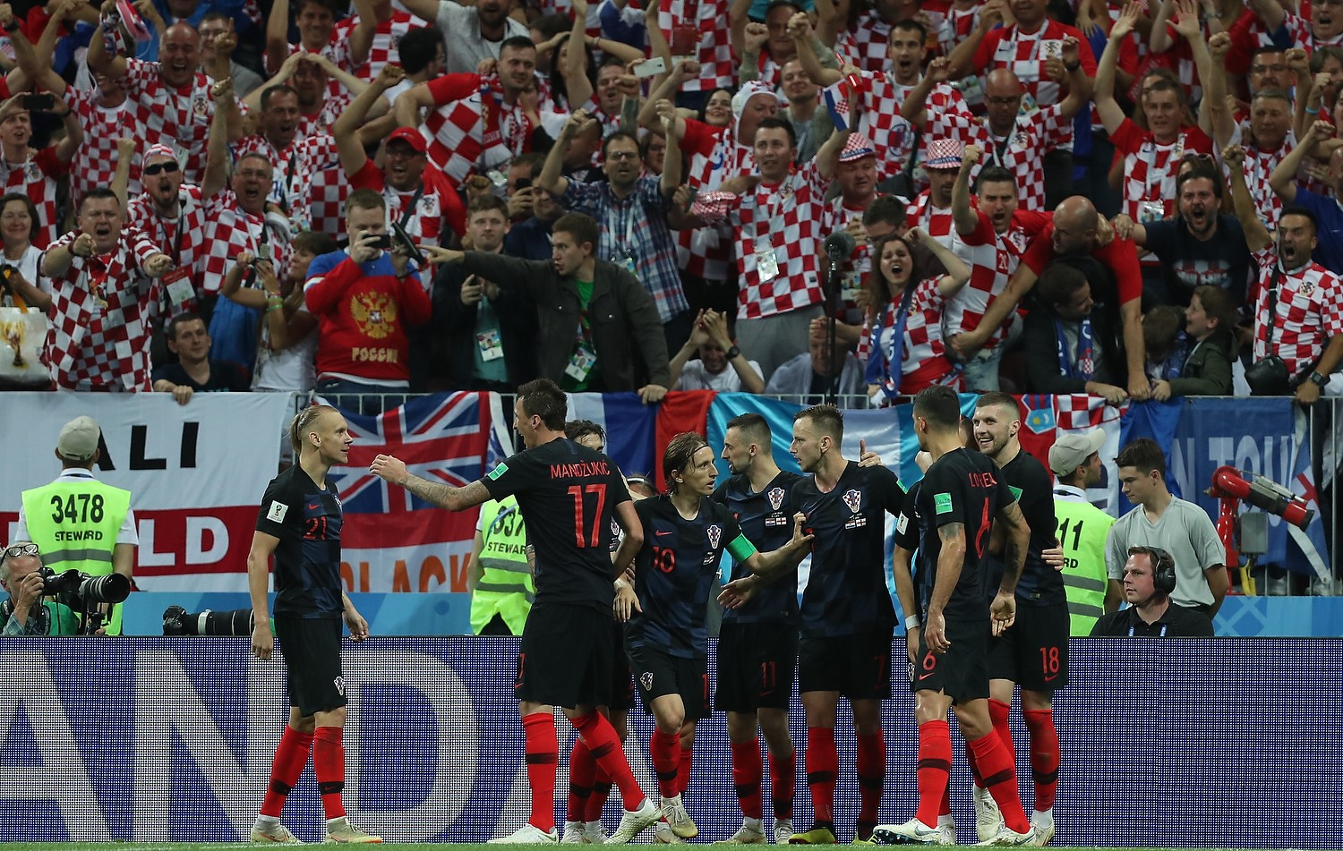 2018 FIFA World Cup Match 62, Croatia v England